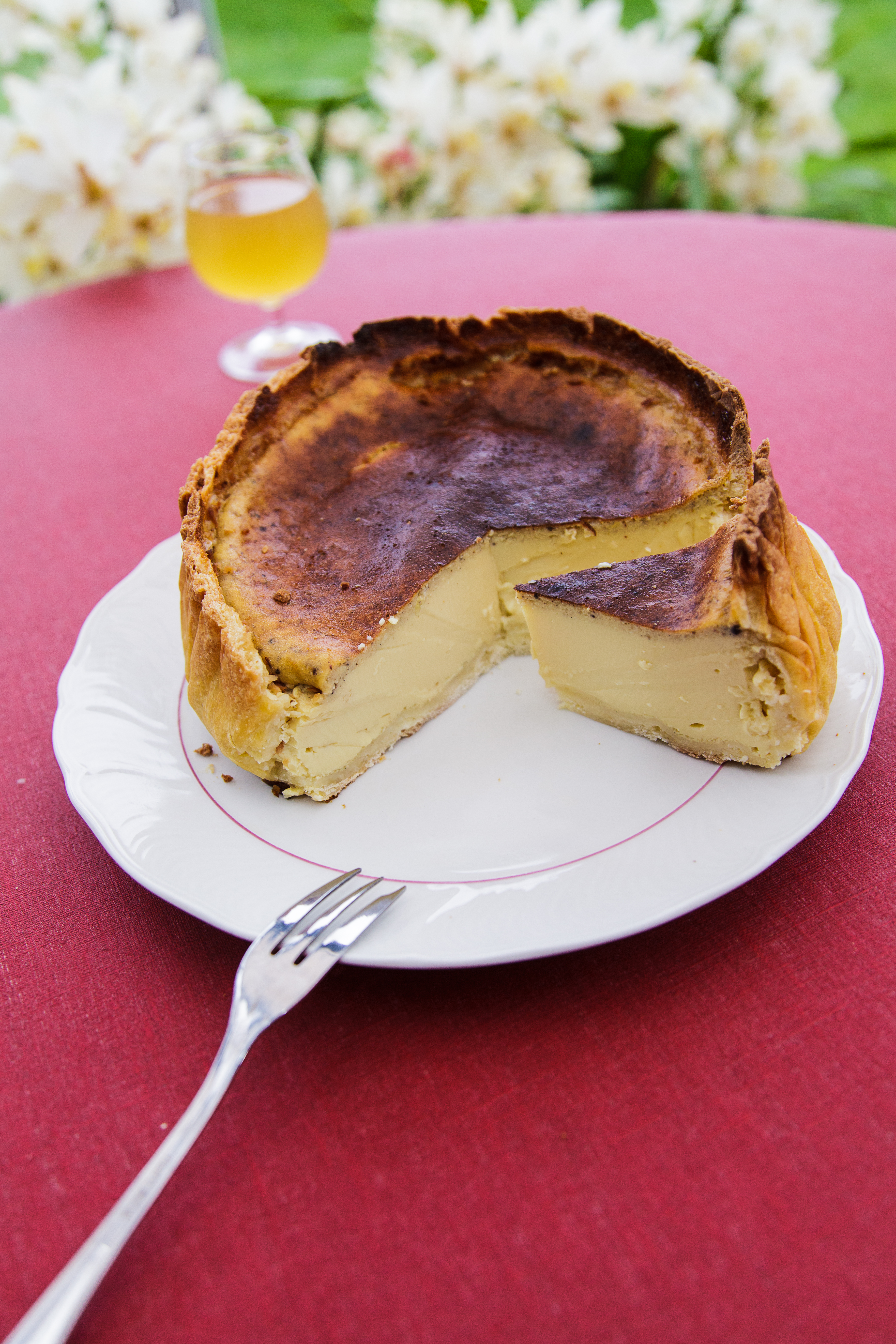 Dessert vendéen